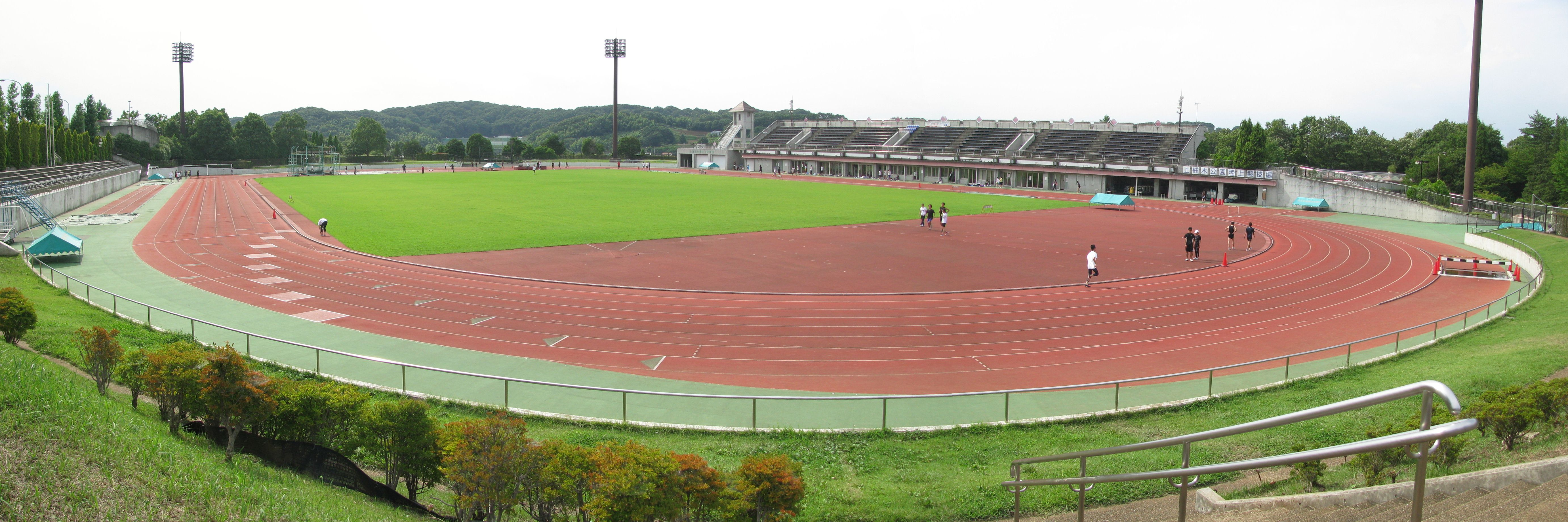 An athletic stadium in the Kami-yugi Park. This place is Kami-yugi in Hachiōji, Tokyo, Japan.